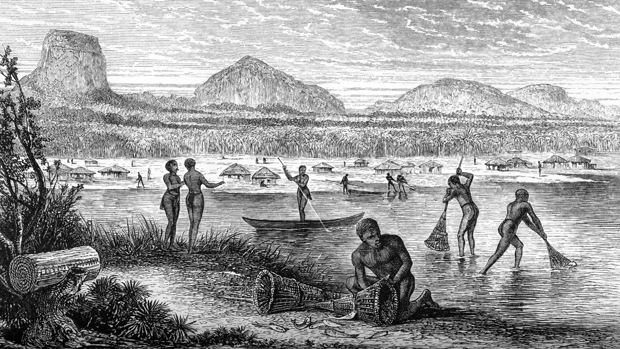 Near the Cataracts of the Rovuma. "Previous reports represented the navigable part of this river as extending to the distance of a month's sail from its mouth; we found that, at the ordinary heights of the water, a boat might reach the obstructions which seem peculiar to all African rivers in six or eight days. The Rovuma is remarkable for the high lands that flank it for some eighty miles from the ocean. The cataracts of other rivers occur in mountains, those of the Rovuma are found in a level part, with hills only in the distance. Far away in the west and north we could see high blue heights, probably of igneous origin from their forms, rising out of a plain." [p. 441]